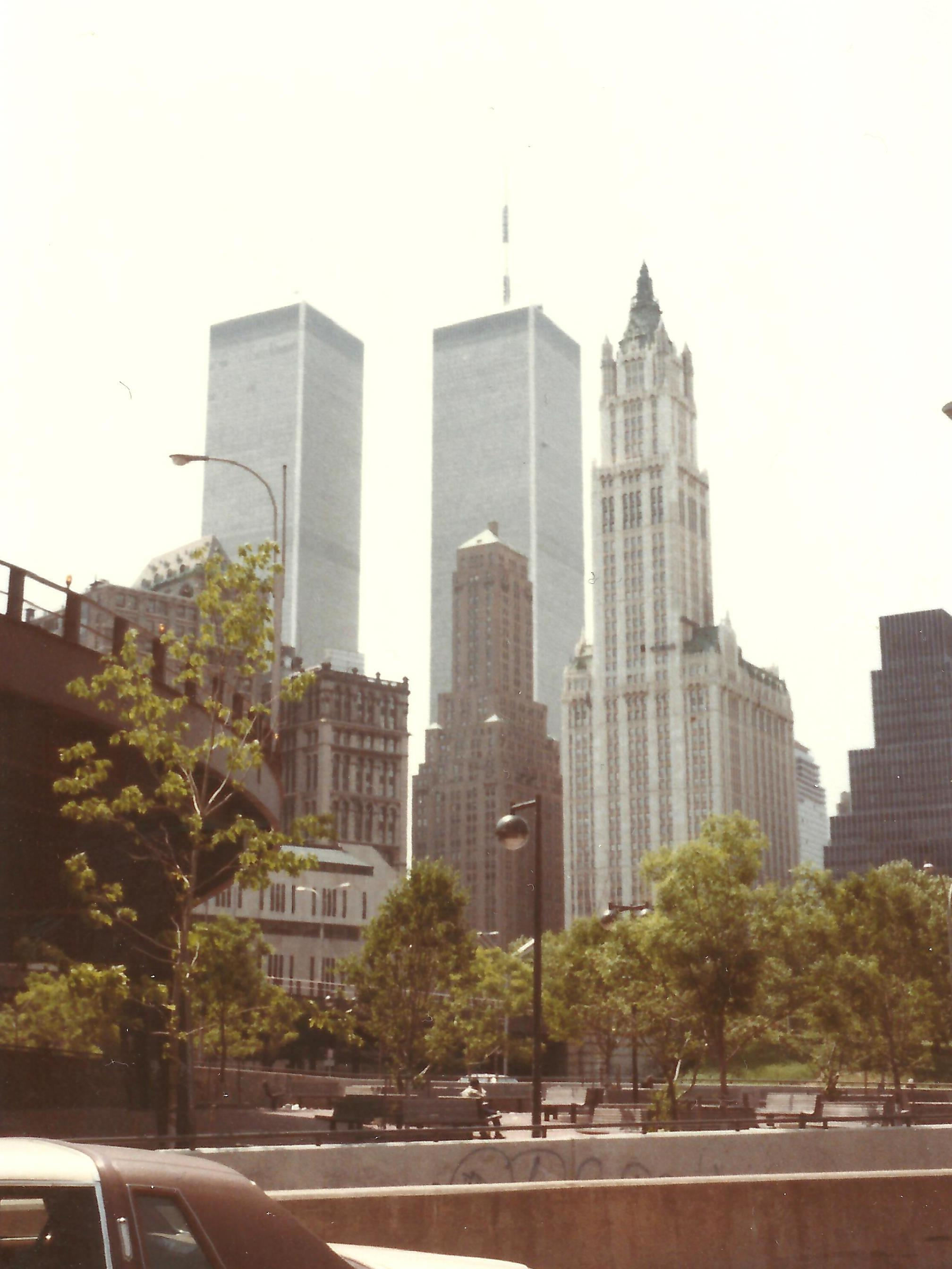 New York City, 1985, several sky scrapers, including the towers of the World Trade Center